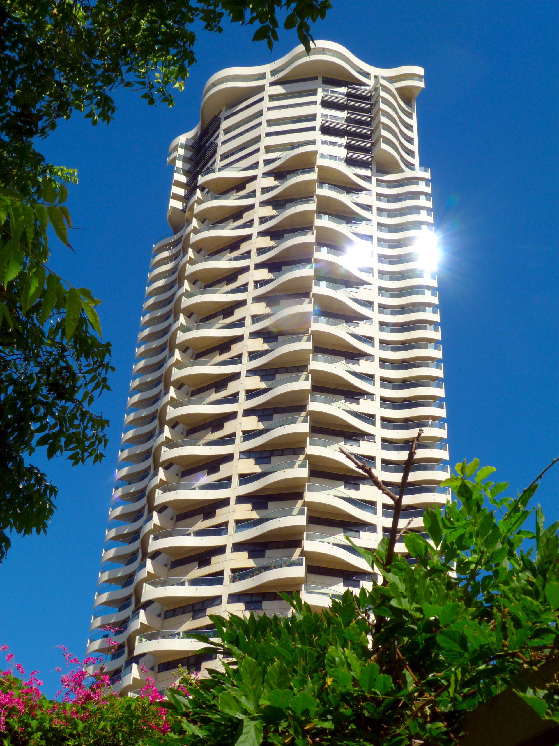 horizon apartments, sydney